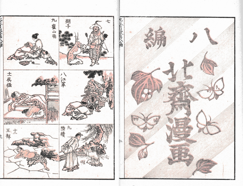 Title page and inner page of Hokusai manga, volume 8.